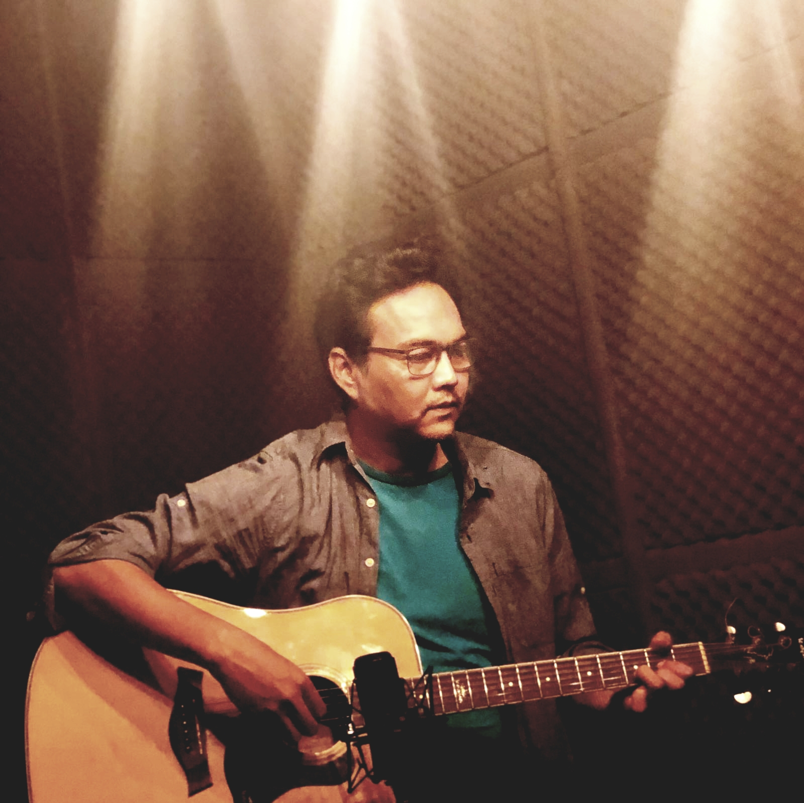 Diramore playing guitar in his studio.